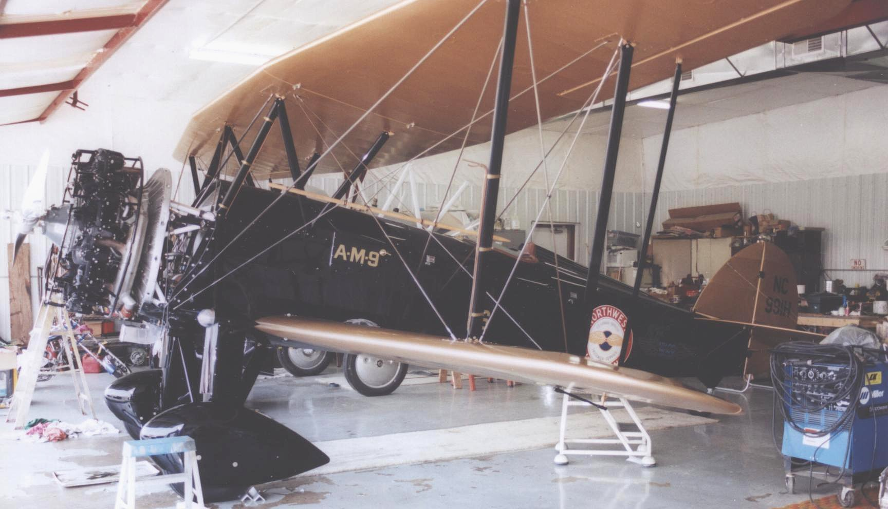 Waco JYM NC991H built 1929 for Northwest Airlines mail services preserved at the Historic Aircraft Restoration Museum, Dauster Field, St Louis